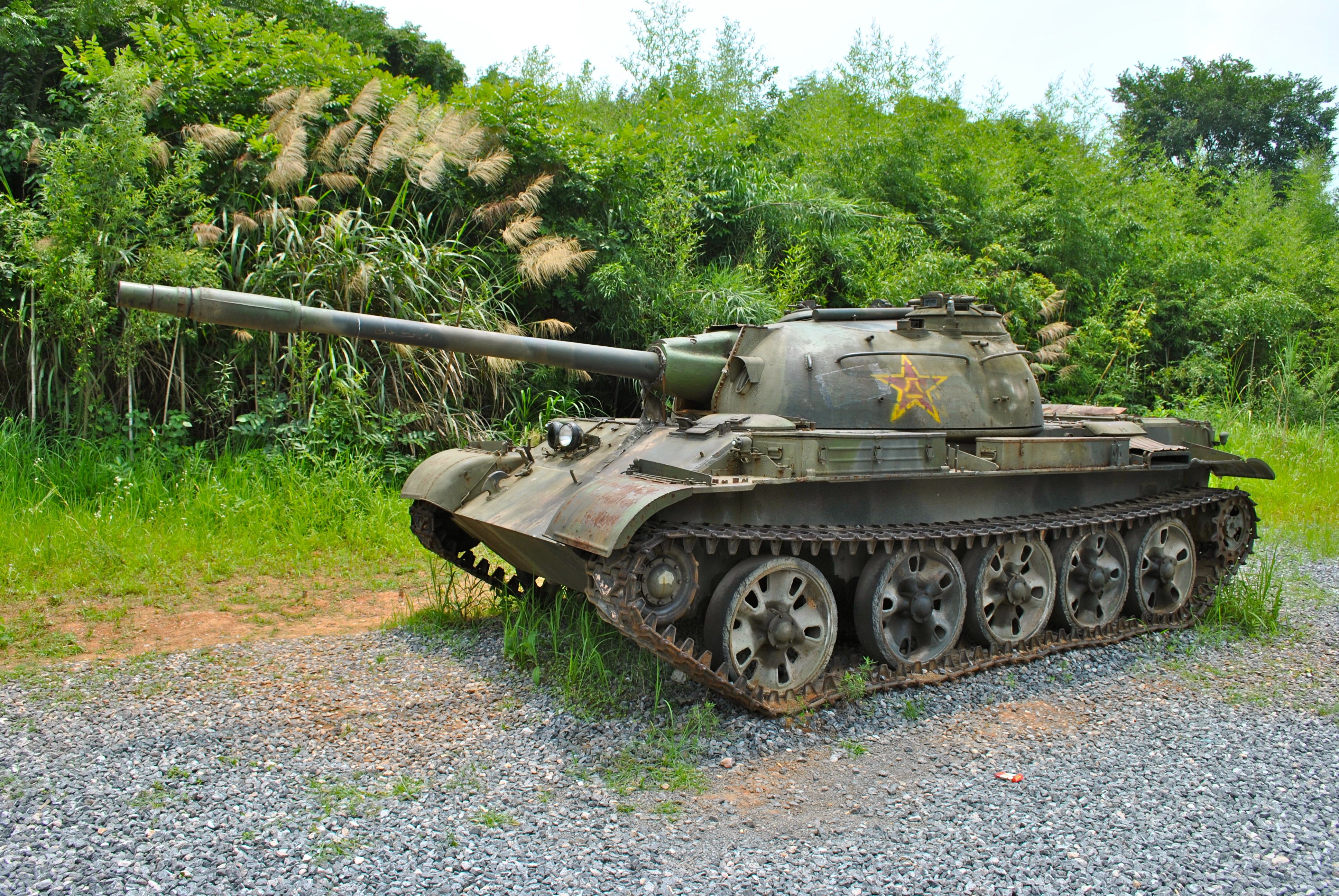 Zhongshan Warship Museum Tank Type 62 light tank